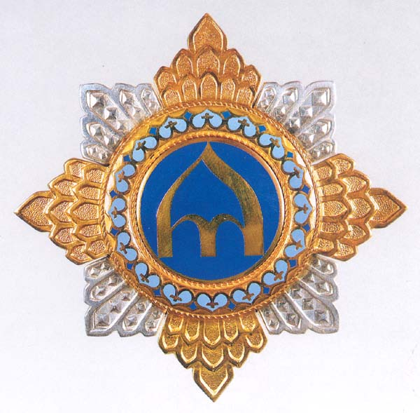 Order of the Yaroslav the Great